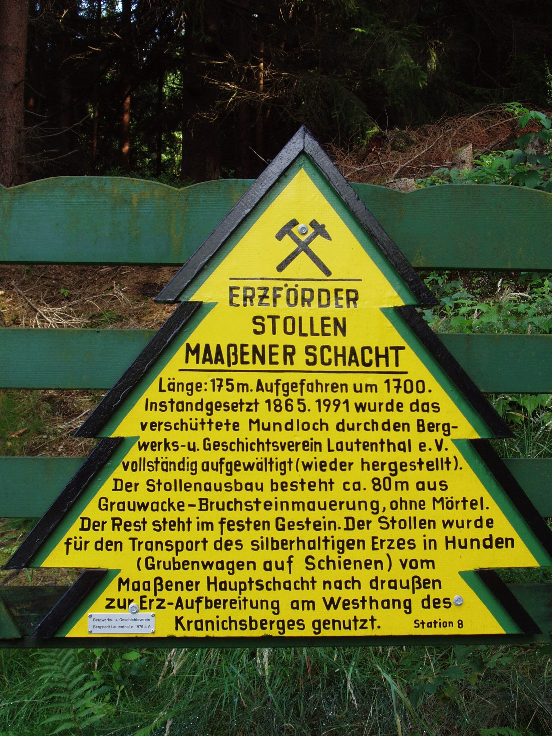 "Dennert Fir Tree" № 48, information board on the Erzläufer Gallery of the Maaßen Pit in Lautenthal, Harz mountains, Lower Saxony, Germany.